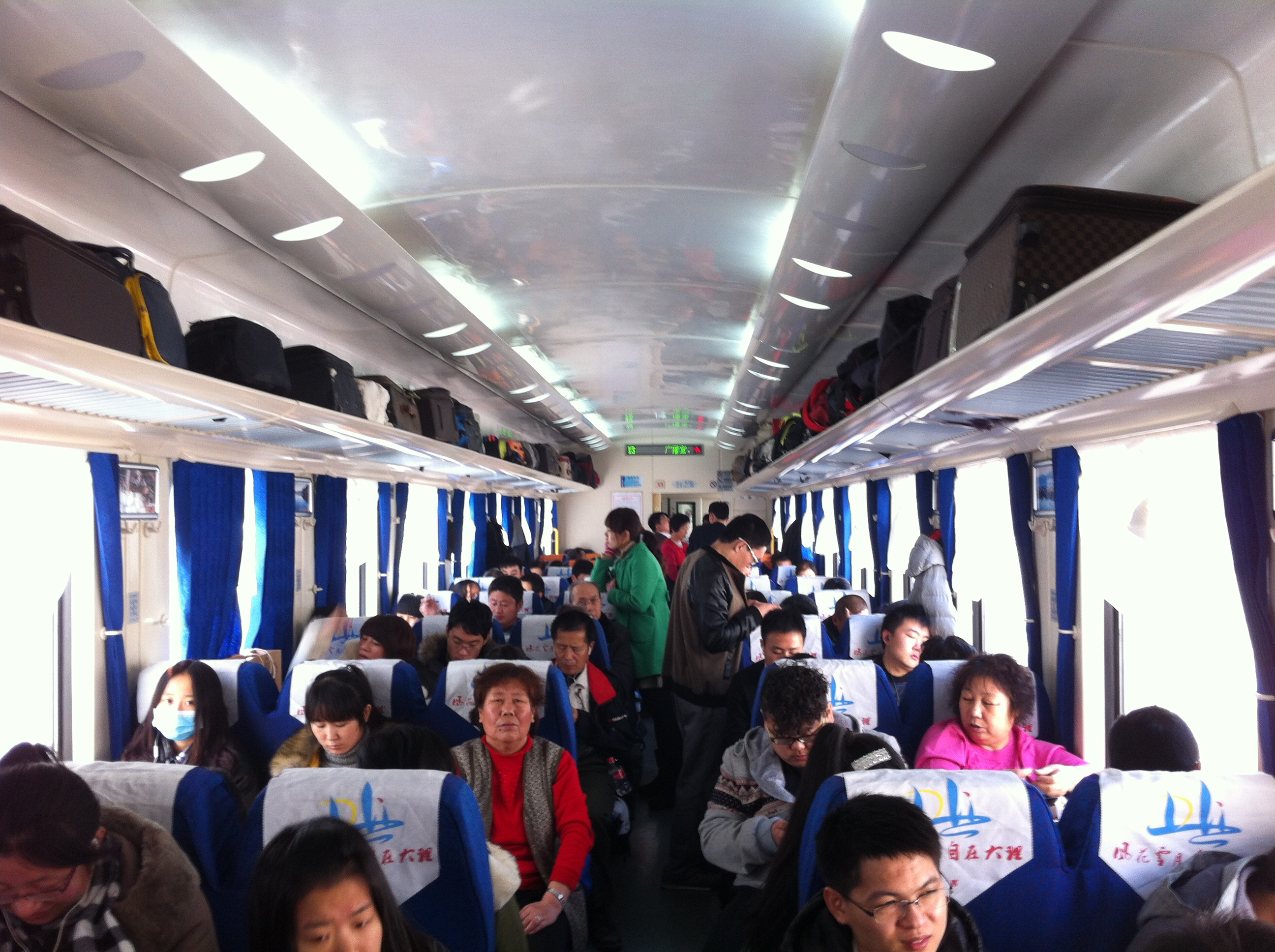 When the train was passing Taiziyu, Fengtai.